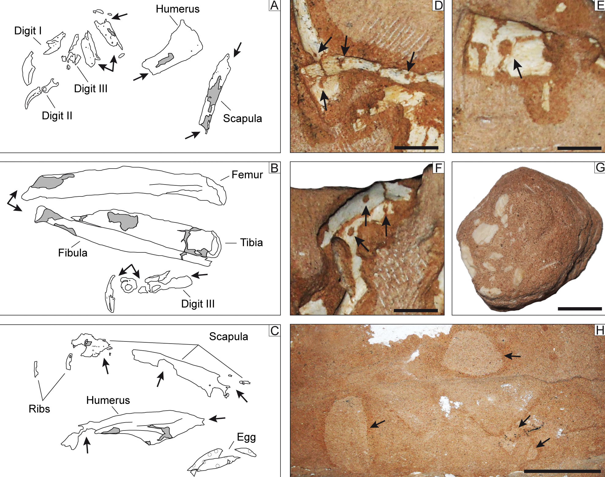 Feeding traces left by colonies of dermestid beetles in Nemegtomaia barsboldi specimen MPC-D 107/15. Articular surfaces have been completely obliterated in the left forearm (A), left leg and pes (B), as well as in the right forearm (C). Circular borings are particularly evident in the left side of the skull (D–F). G, Bone-chip burrow found under the skull of the specimen. H, large traces of reworked sediment under the skeleton.